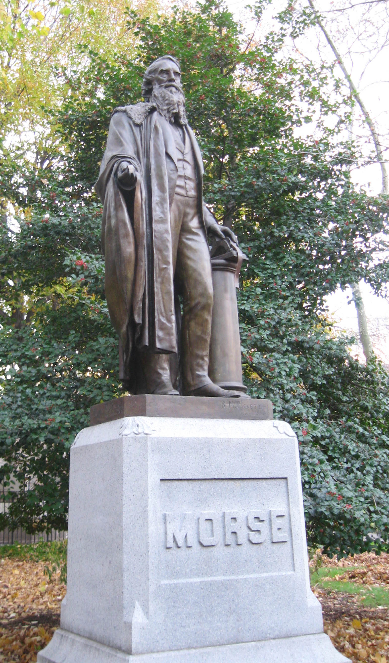 Looking southwest at statue of Samuel Finley Breese Morse by Byron M. Pickett near Inventors Gate of Central Park, on a cloudy afternoon